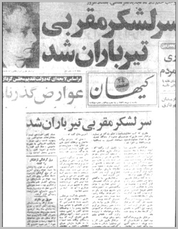 Headline General Mogharebi exekutiert!